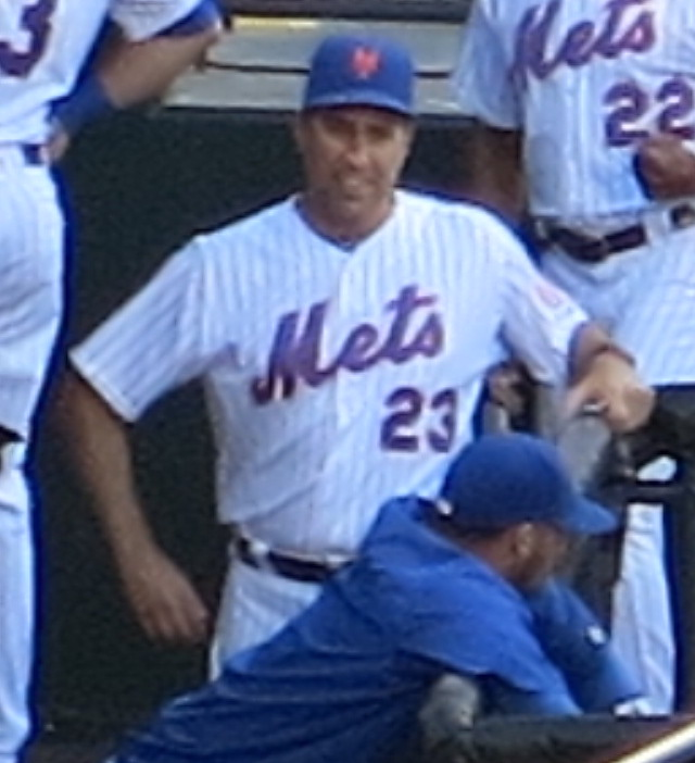 Dick Scott of the New York Mets, June 17, 2016.